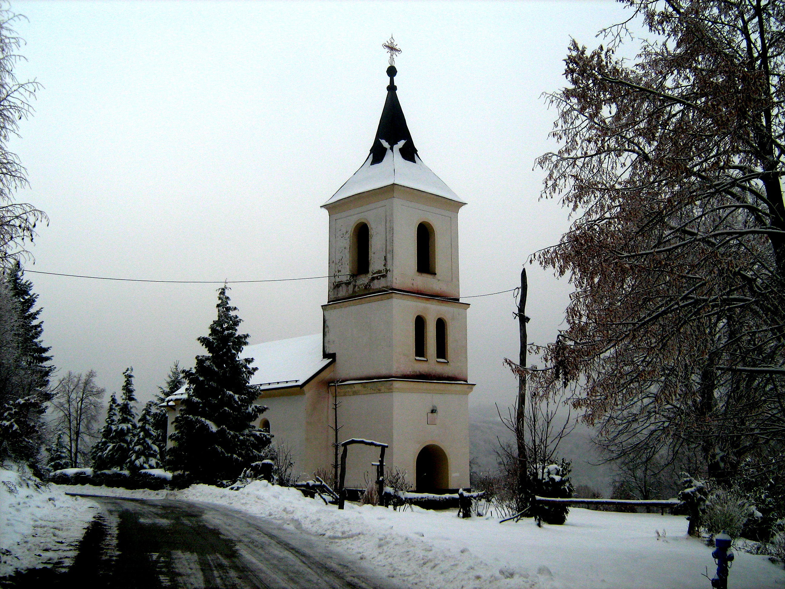 church in mrzlo polje zumberacko